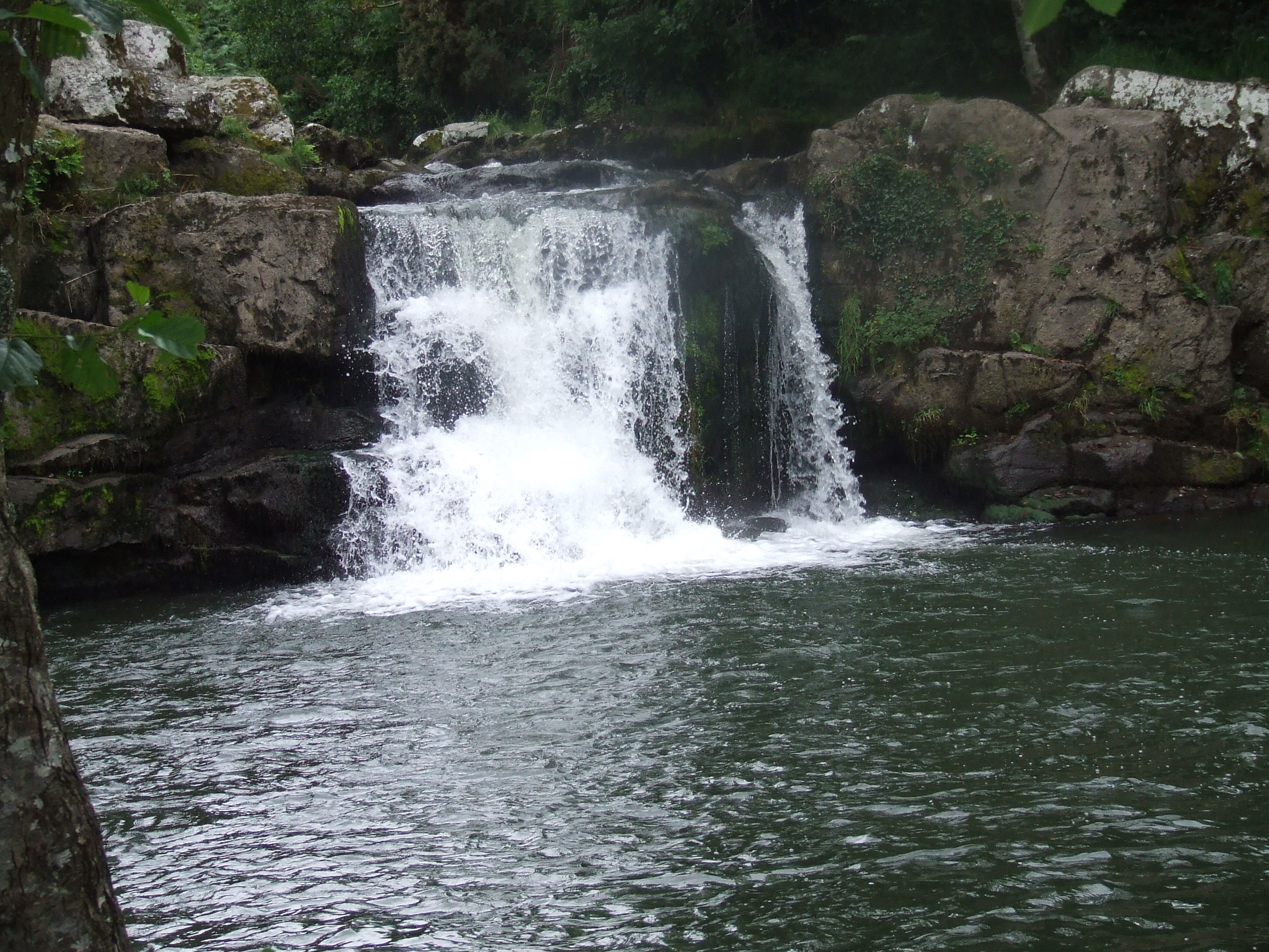 Pollanassa waterfall near the village of Mullinavat in County Kilkenny.